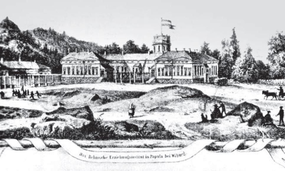 The German Behm Boarding School (1853-1881) in Vyborg, Finland, 1860s.